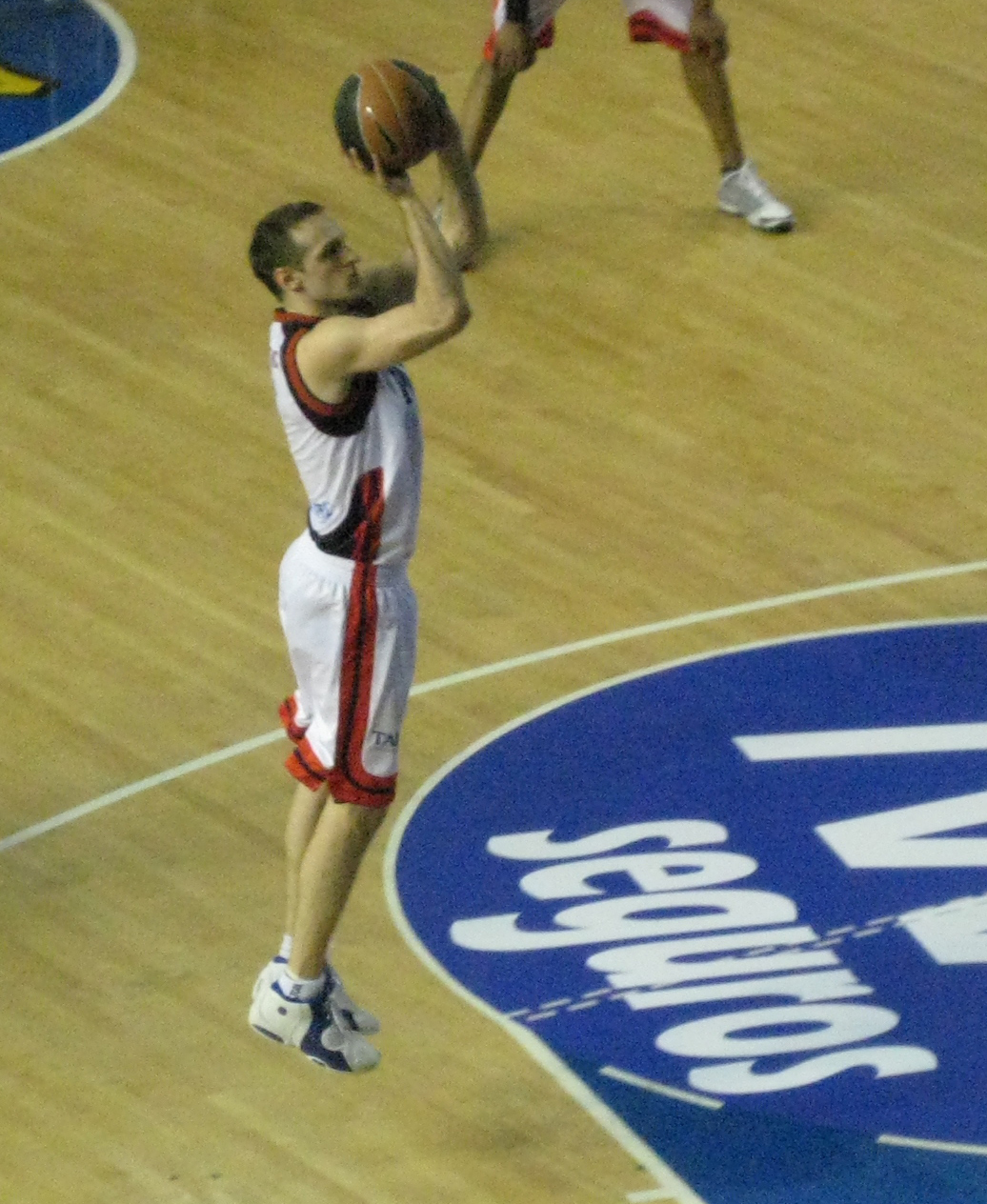 Igor Rakočević warming up in the second game of the 2008 ACB Finals.